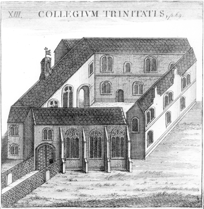 Trinity College in 1566, the year of Elizabeth I's visit to the city. Part of a series depicting the colleges as then were. The view is more or less North from Broad Street; only a little of the structure survives, though the view remains easily recognisable to present students.